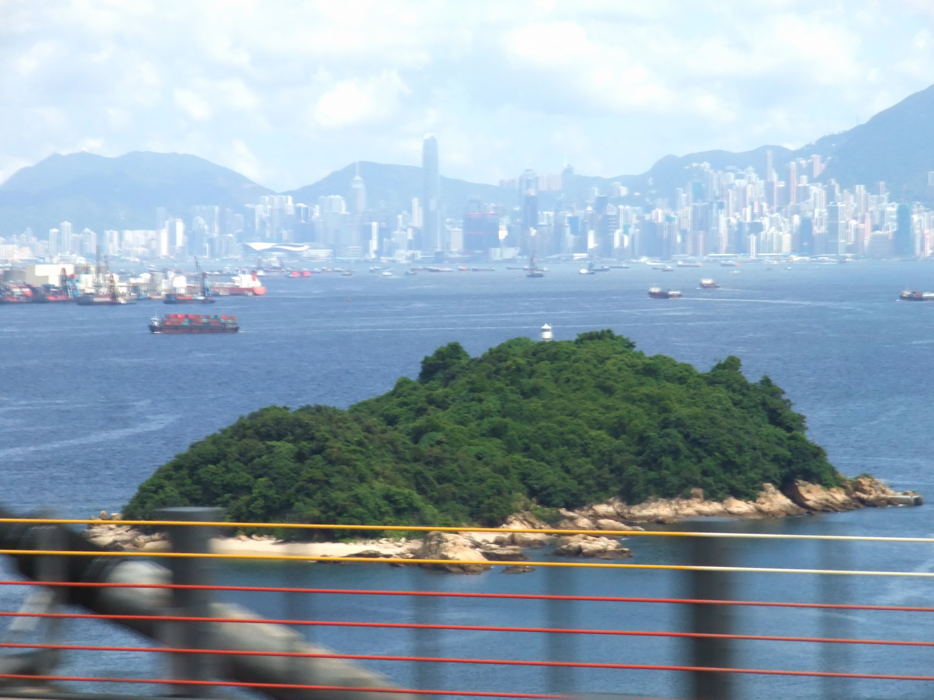 Tang Lung Chau, viewing from Tsing Ma Bridge.